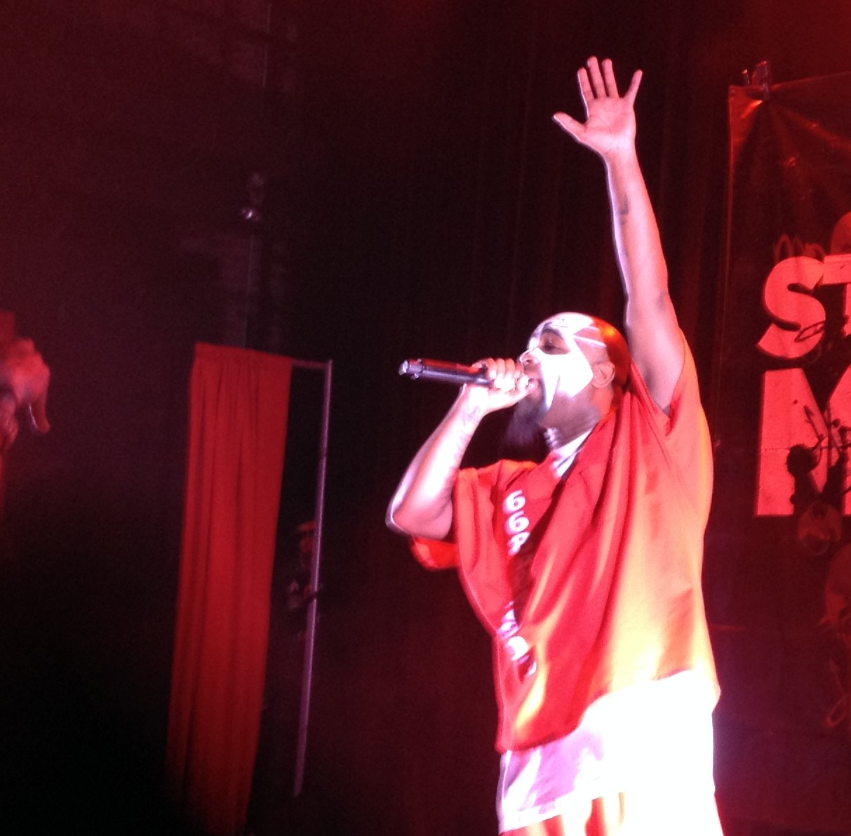 Tech N9ne finishes performing at The Blue Note in Columbia, MO